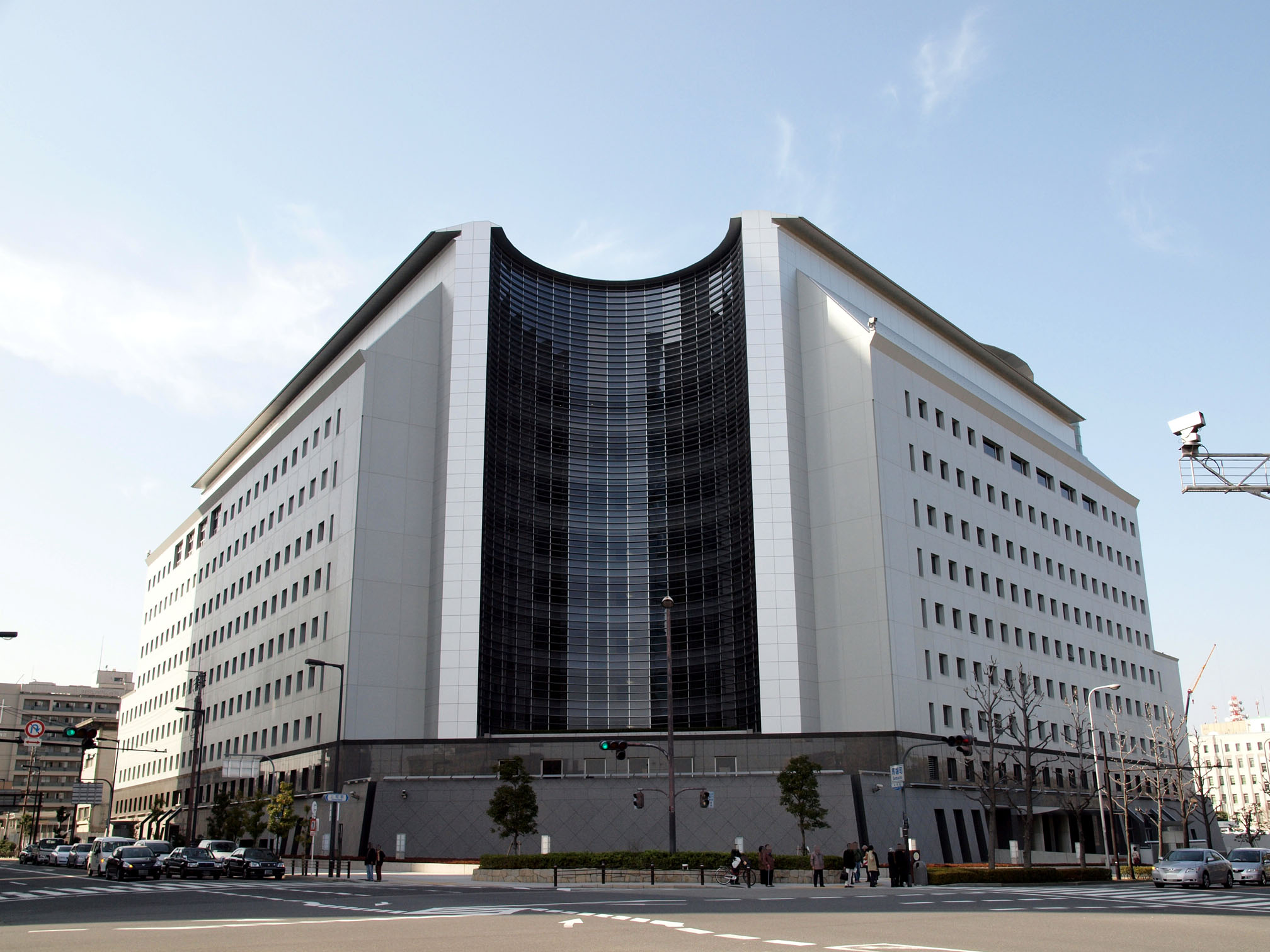 Osaka Prefectural Police Headquarters in Osaka, Japan